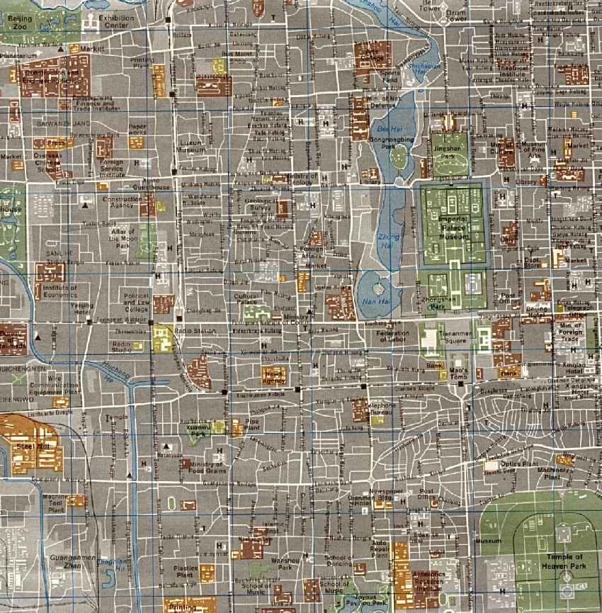 produced by the U.S. Central Intelligence Agency (Source [1])